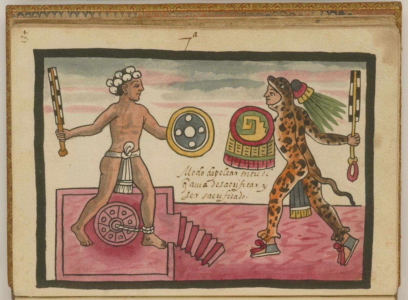 The Tovar Codex, attributed to the 16th-century Mexican Jesuit Juan de Tovar, contains detailed information about the rites and ceremonies of the Aztecs (also known as Mexica). The codex is illustrated with 51 full-page paintings in watercolor. Strongly influenced by pre-contact pictographic manuscripts, the paintings are of exceptional artistic quality. The manuscript is divided into three sections. The first section is a history of the travels of the Aztecs prior to the arrival of the Spanish. The second section, an illustrated history of the Aztecs, forms the main body of the manuscript. The third section contains the Tovar calendar. This illustration, from the second section, depicts a scene of sacrifice. The victim, with white feathers in his hair and a shield with the signs of the five directions of space, fights a warrior dresssed in jaguar skin holding a war club and shield, and wearing a feathered headdress. This sacrificial rite was celebrated on the festival of Tlacaxipehualiztli in honor of Xipe Tótec, "our flayed lord," the god of agriculture, death, rebirth, and the seasons. At his festival in the spring, men were sacrificed by tying them to the temalacatl (an altar stone). Once defeated, the victim was flayed and eaten. A description of this festival is given in another important manuscript, the Codex Durán. Aztecs; Codex; Indians of Mexico; Indigenous peoples; Mesoamerica; Rituals; Sacrifice; Tovar Codex